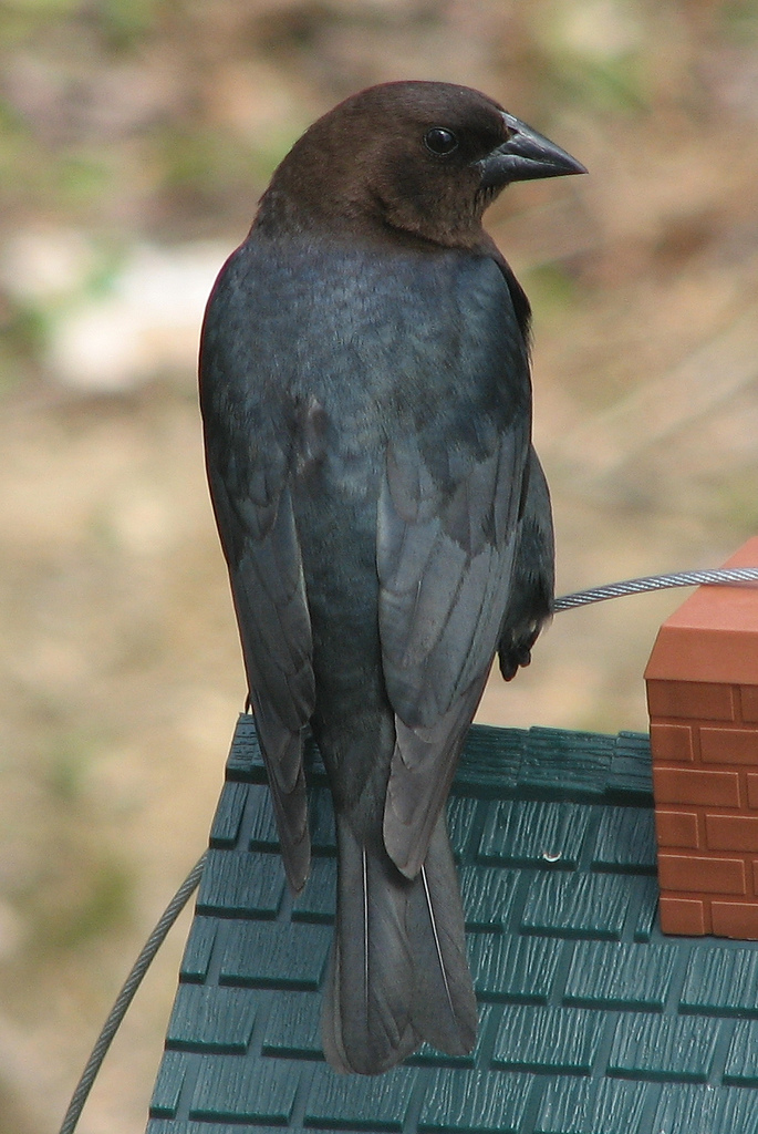 Male Brown-headed Cowbird (Molothrus ater)